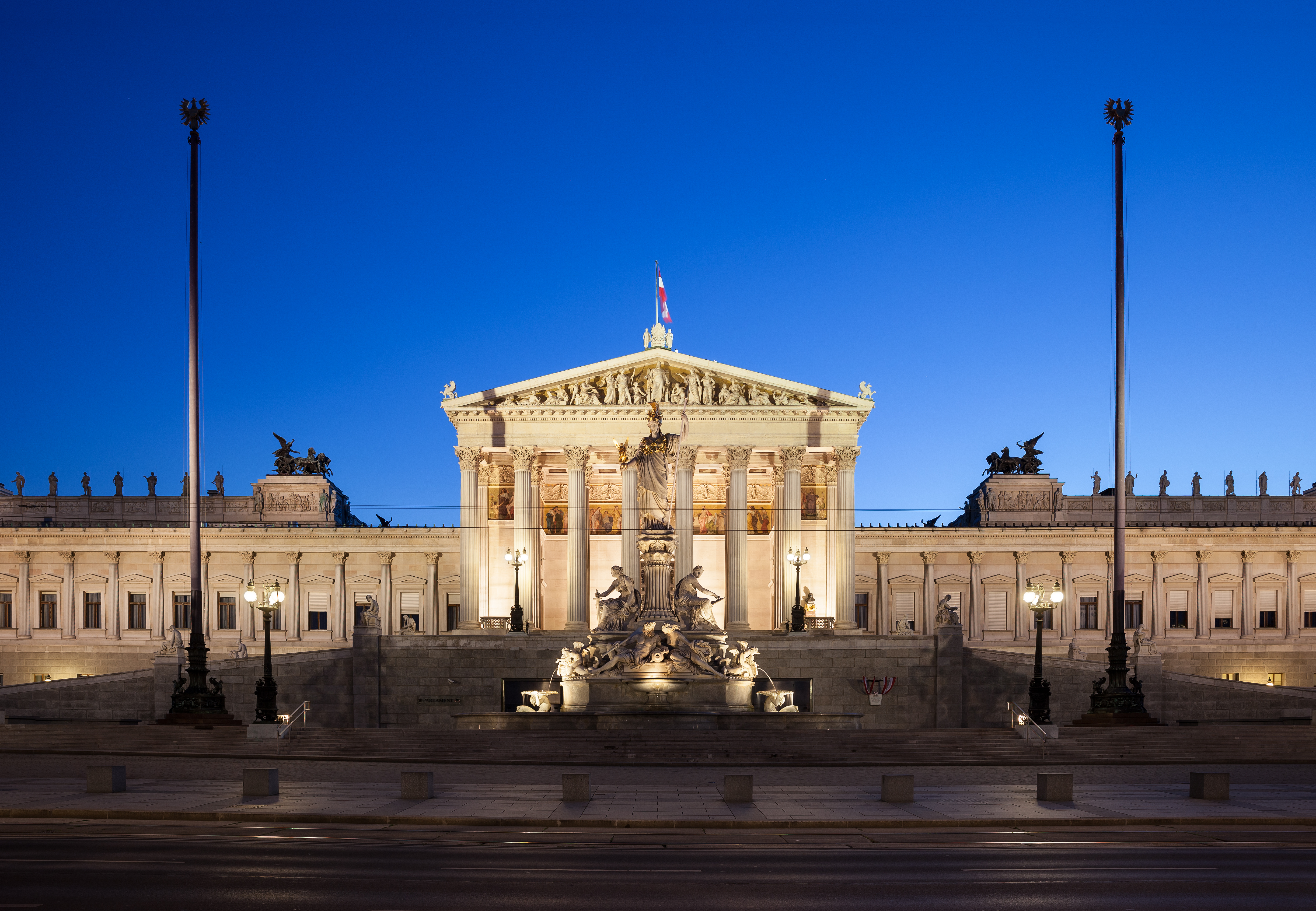 Parliament Building in Vienna, Austria